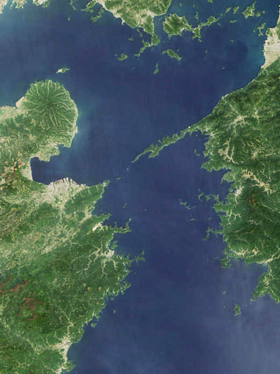 Hoyo Strait, Japan from Satellite / 衛星から見た豊予海峡